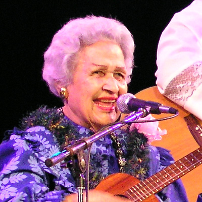 Aunty Genoa Keawe performing at the Honolulu Festival. Taken at the Honolulu Convention Center.